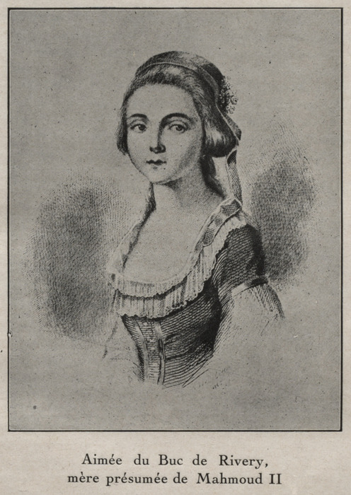 Picture of Aimée du Buc de Rivery, from "Silhouettes et documents du XVIII e siècle : Martinique, Périgord, Lyonnais, Ile-de-France"